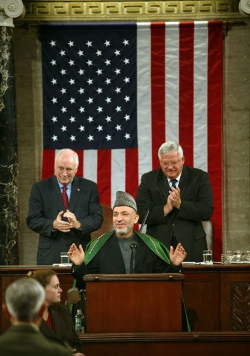 Vice President Dick Cheney and Speaker of the House Dennis Hastert (R-IL), right, welcome Afghanistan President Hamid Karzai, center, before he addresses the joint meeting of Congress on Capitol Hill Tuesday, June 15, 2004.